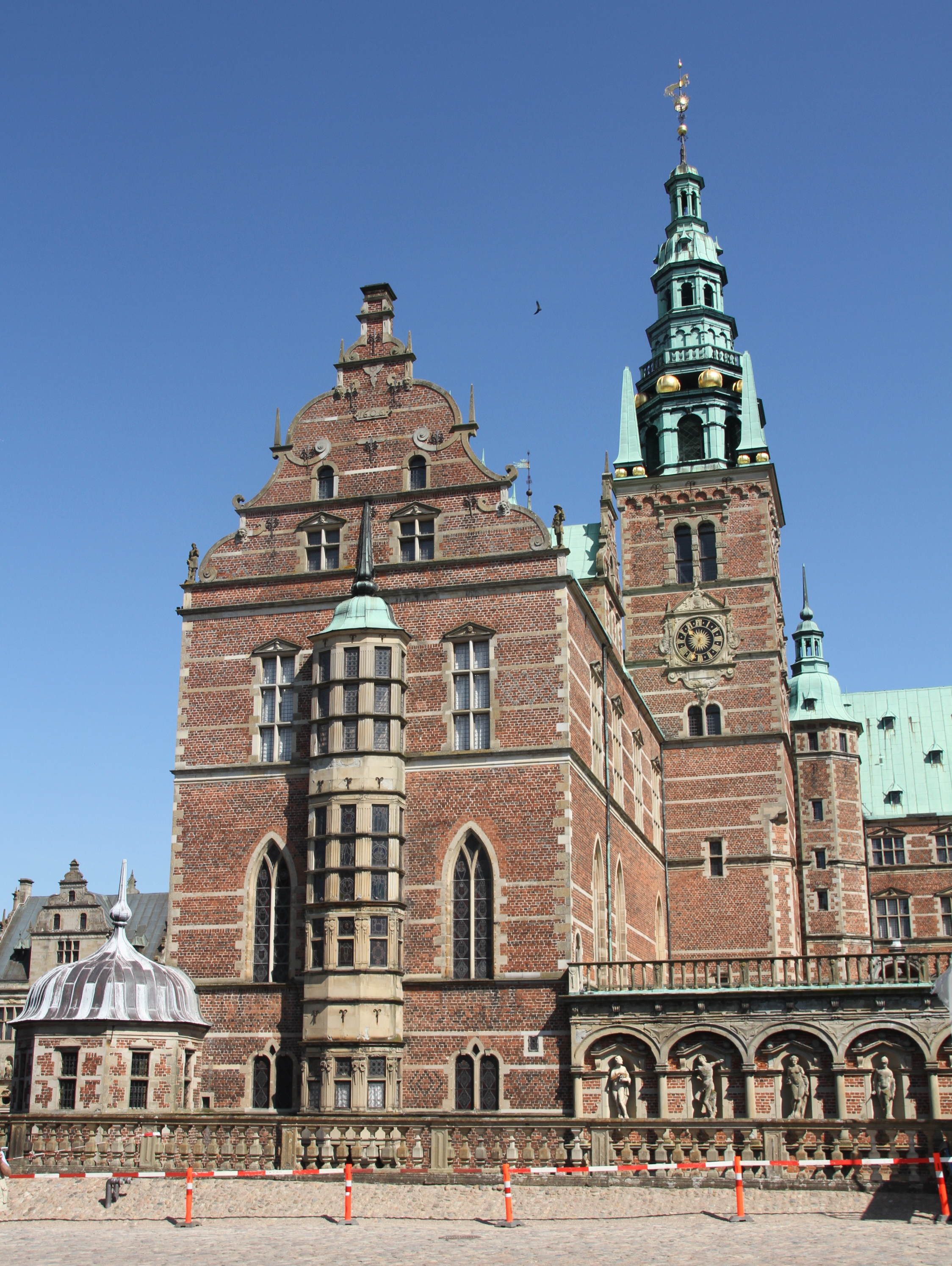 Frederiksborg Castle in the municipality of Hillerød, Denmark.